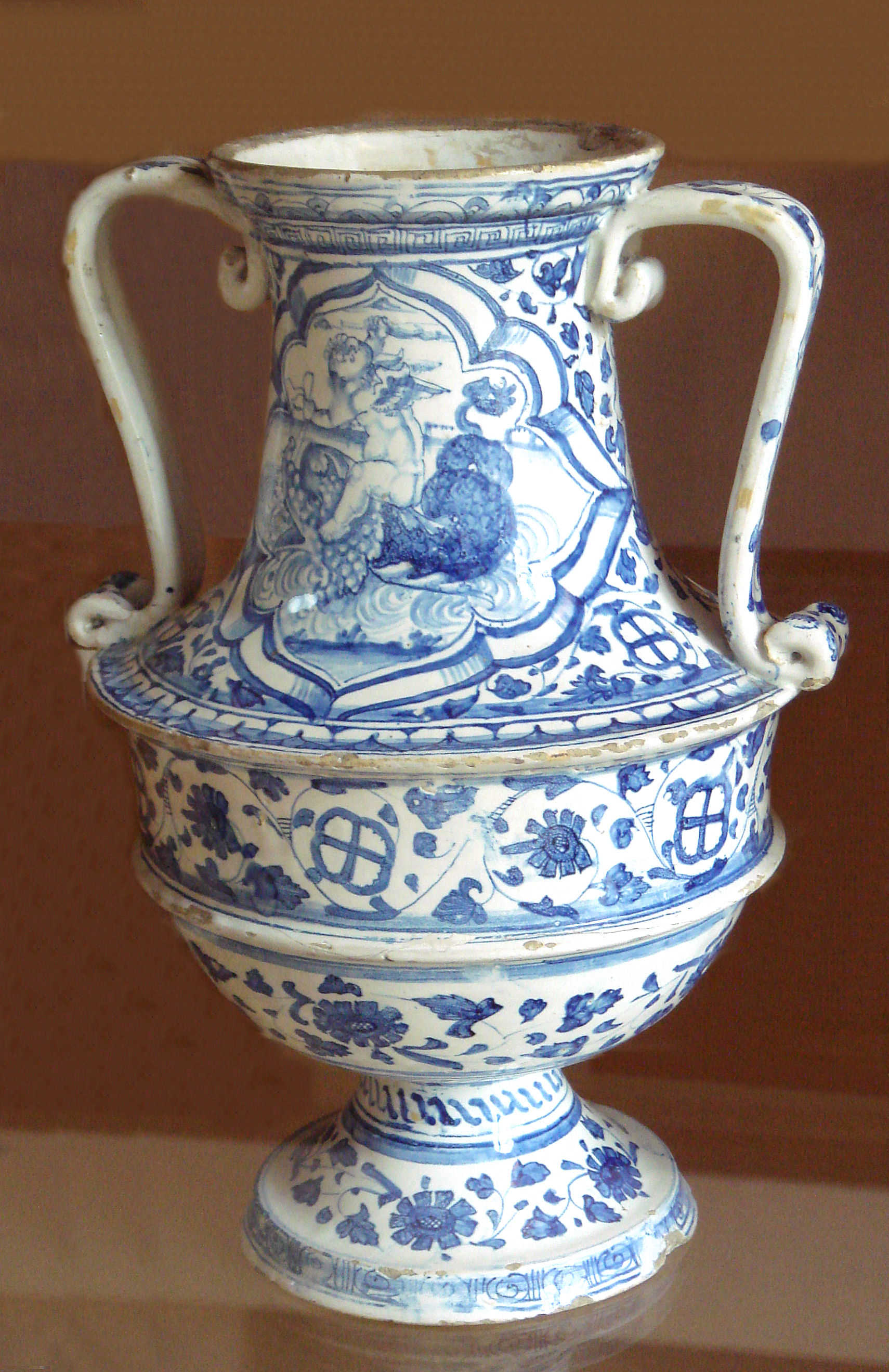 Vase_alla_porcelana_Cafaggiolo_1520